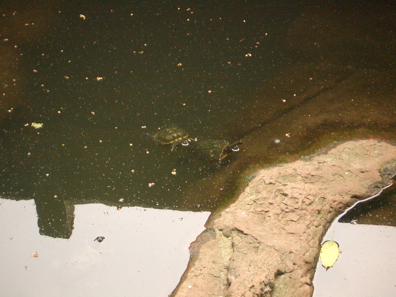 A little pond, described as an Immortal's footprint, in the yard of the Temple of the Five Immortals (Guangzhou). Plenty of turtles live in the pond, enjoying the relative safety of the Taoist temple.